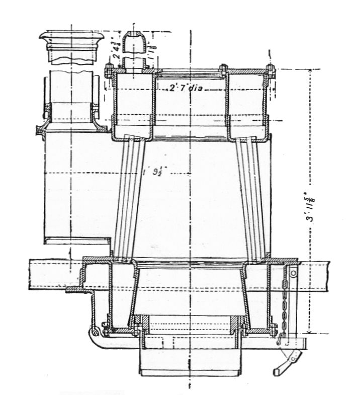 Fig. 225 Sectional elevation of Thornycroft boiler Vertical inclined-watertube boiler, as fitted to Thornycroft steam wagons.